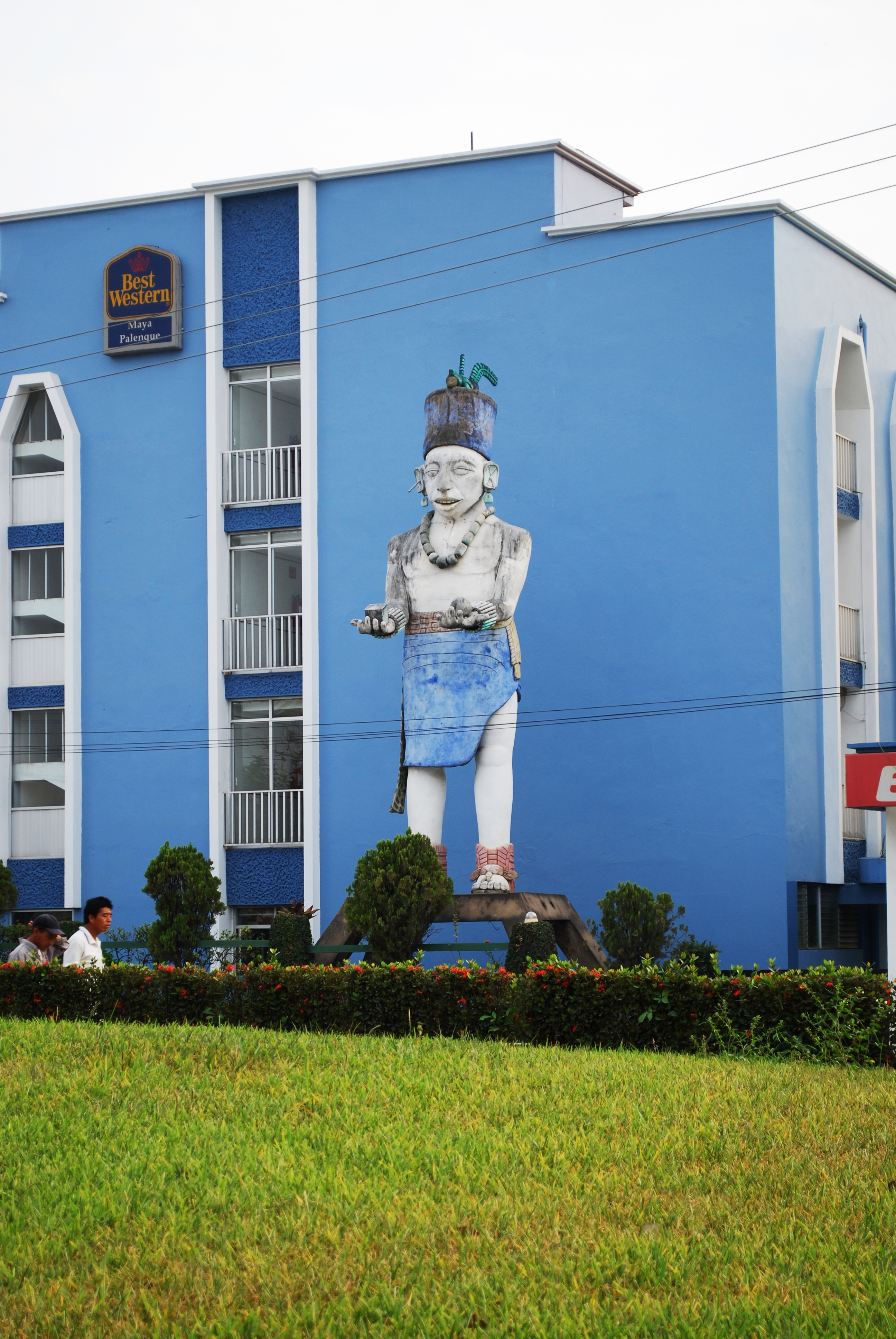 Mayan figure outside a Best Western hotel in Palenque, Chiapas, Mexico